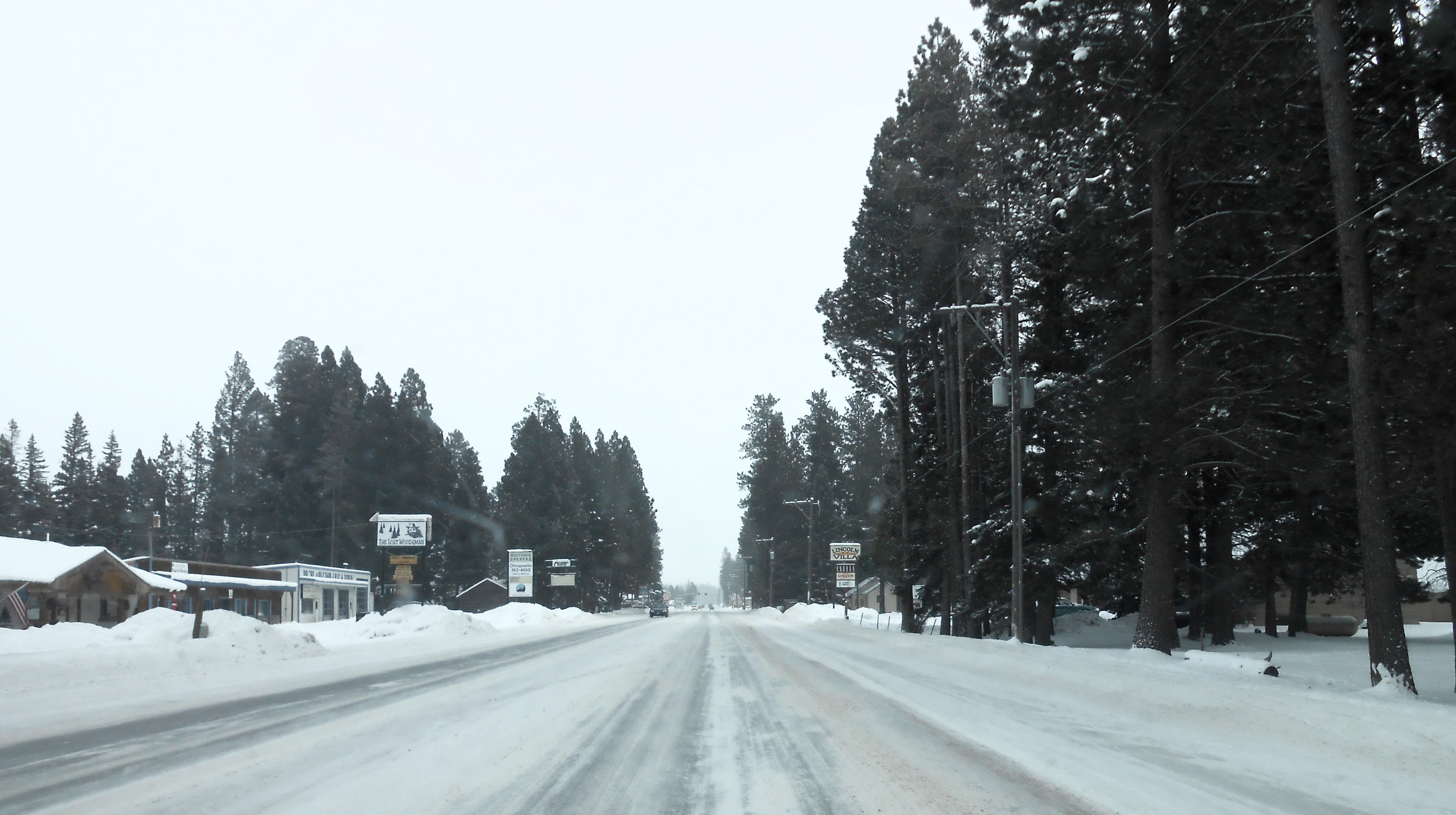 Downtown Lincoln, Montana, December 2015